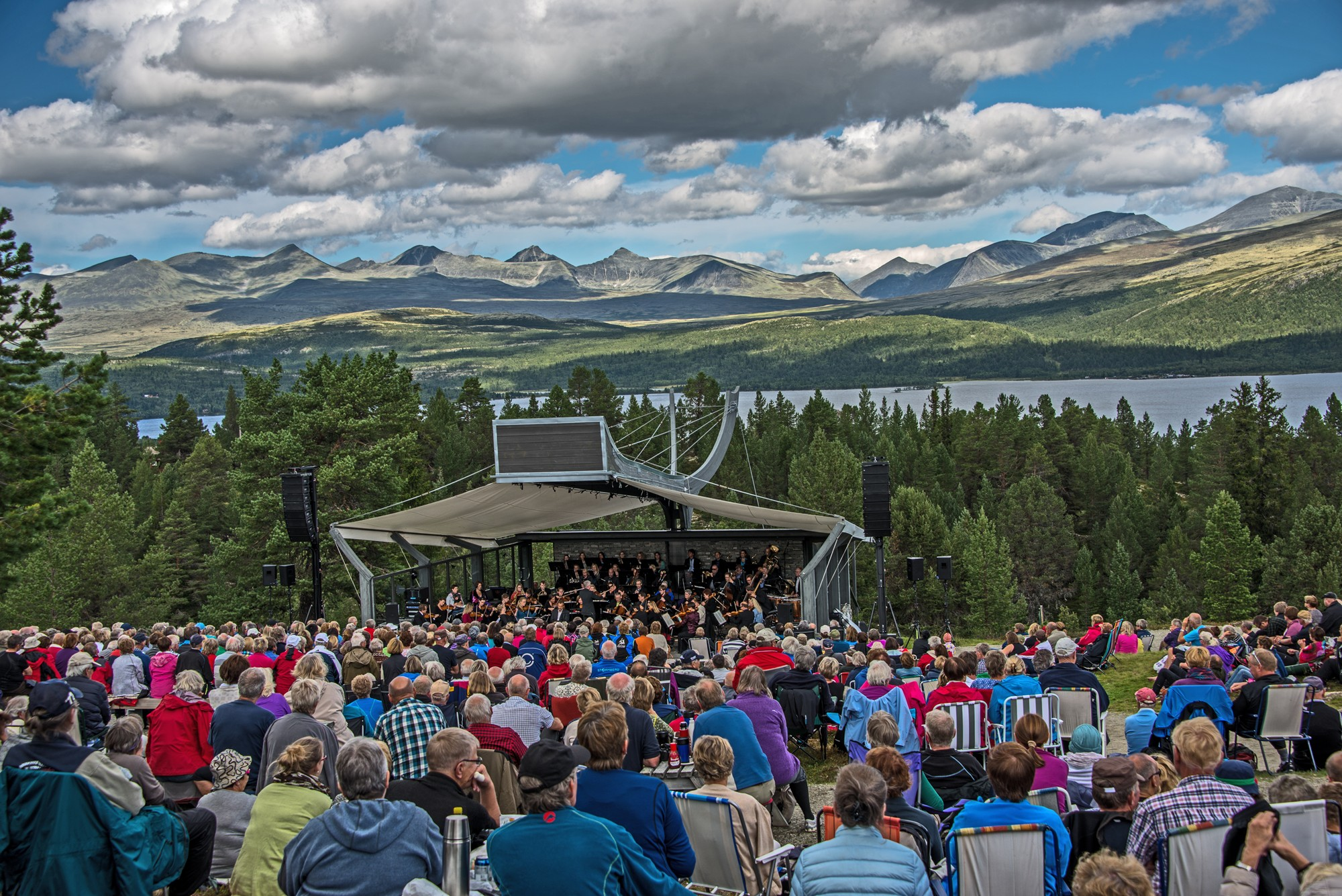 The outdoor mountain concert by Rondane National Park.